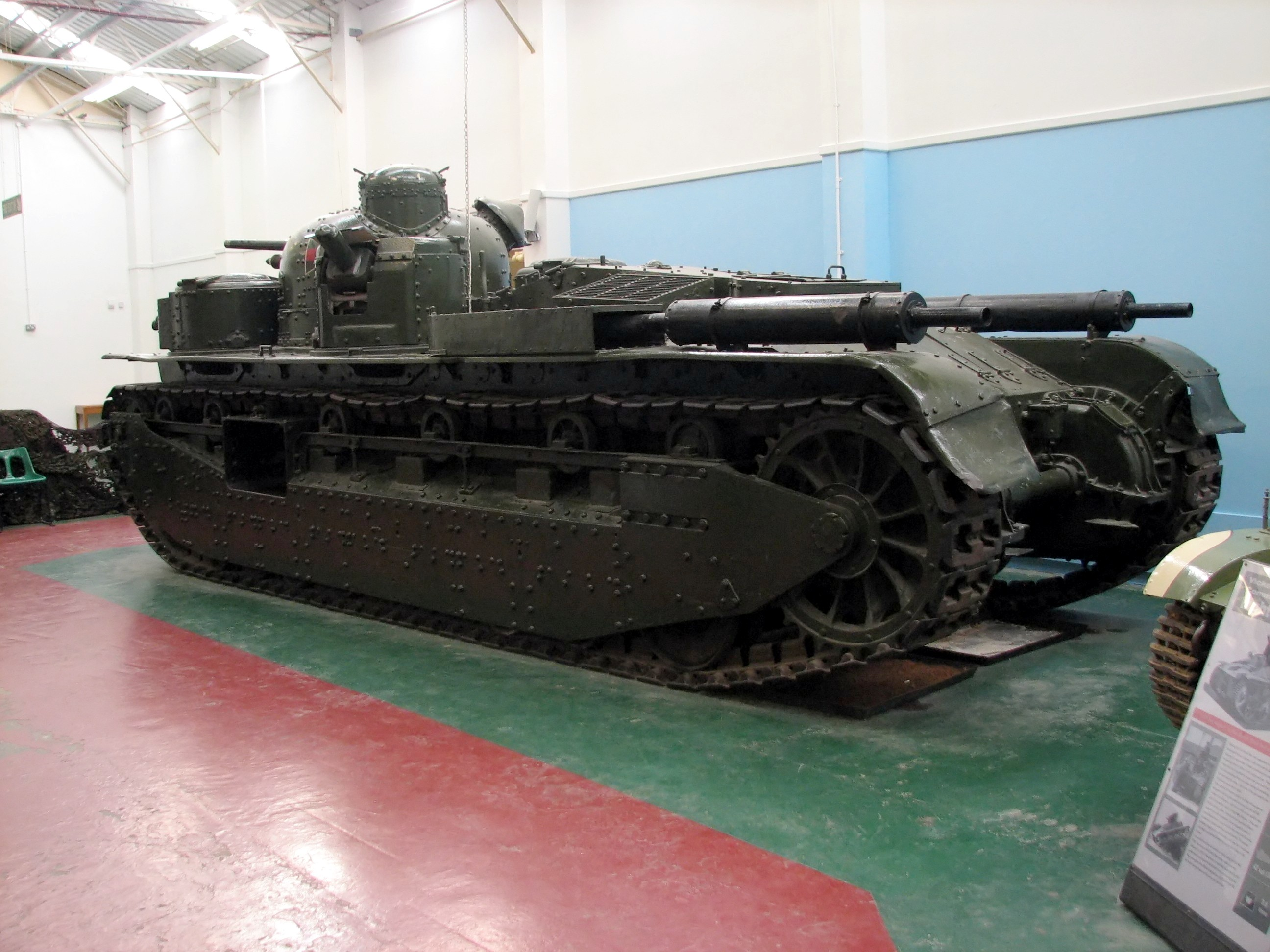 Independent Tank, Bovington